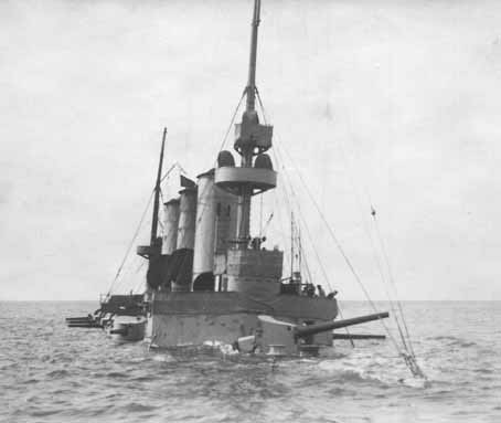 Ottoman cruiser Mecidiye in Odesa, 1915.